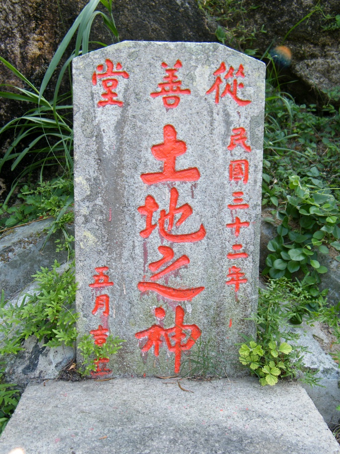 达濠万人墓